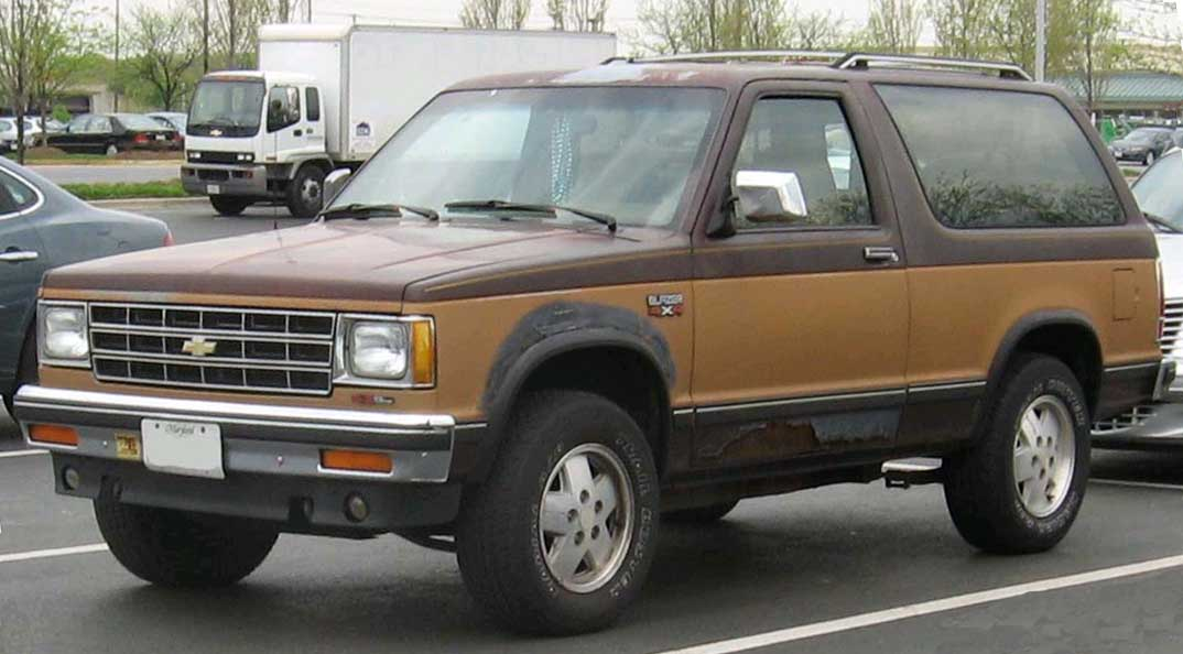 1983-1994 Chevrolet S-10 Blazer photographed in Clinton, Maryland, USA.